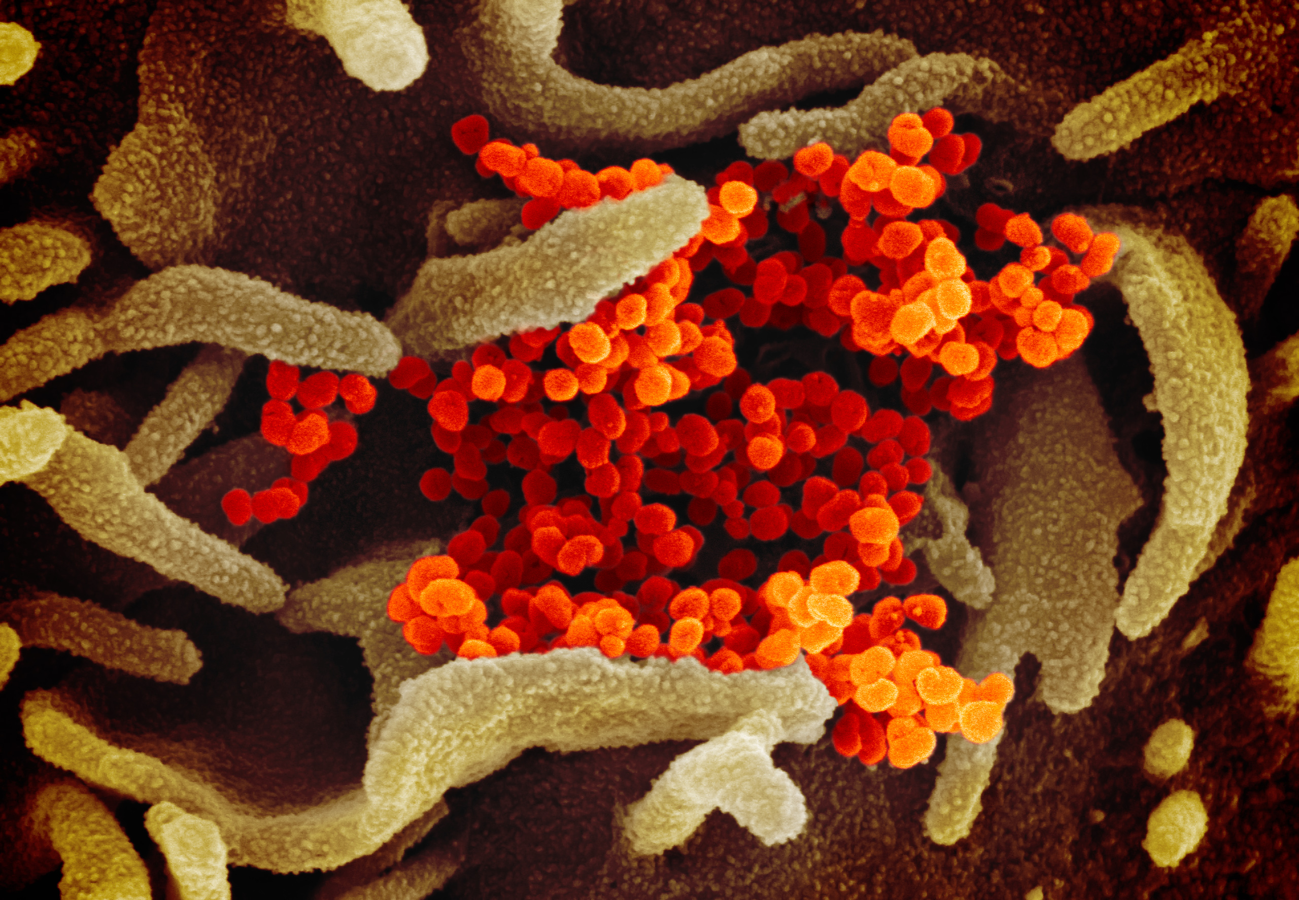 This scanning electron microscope image shows SARS-CoV-2 (orange)—also known as 2019-nCoV, the virus that causes COVID-19—isolated from a patient in the U.S., emerging from the surface of cells (green) cultured in the lab. Credit: NIAID-RML